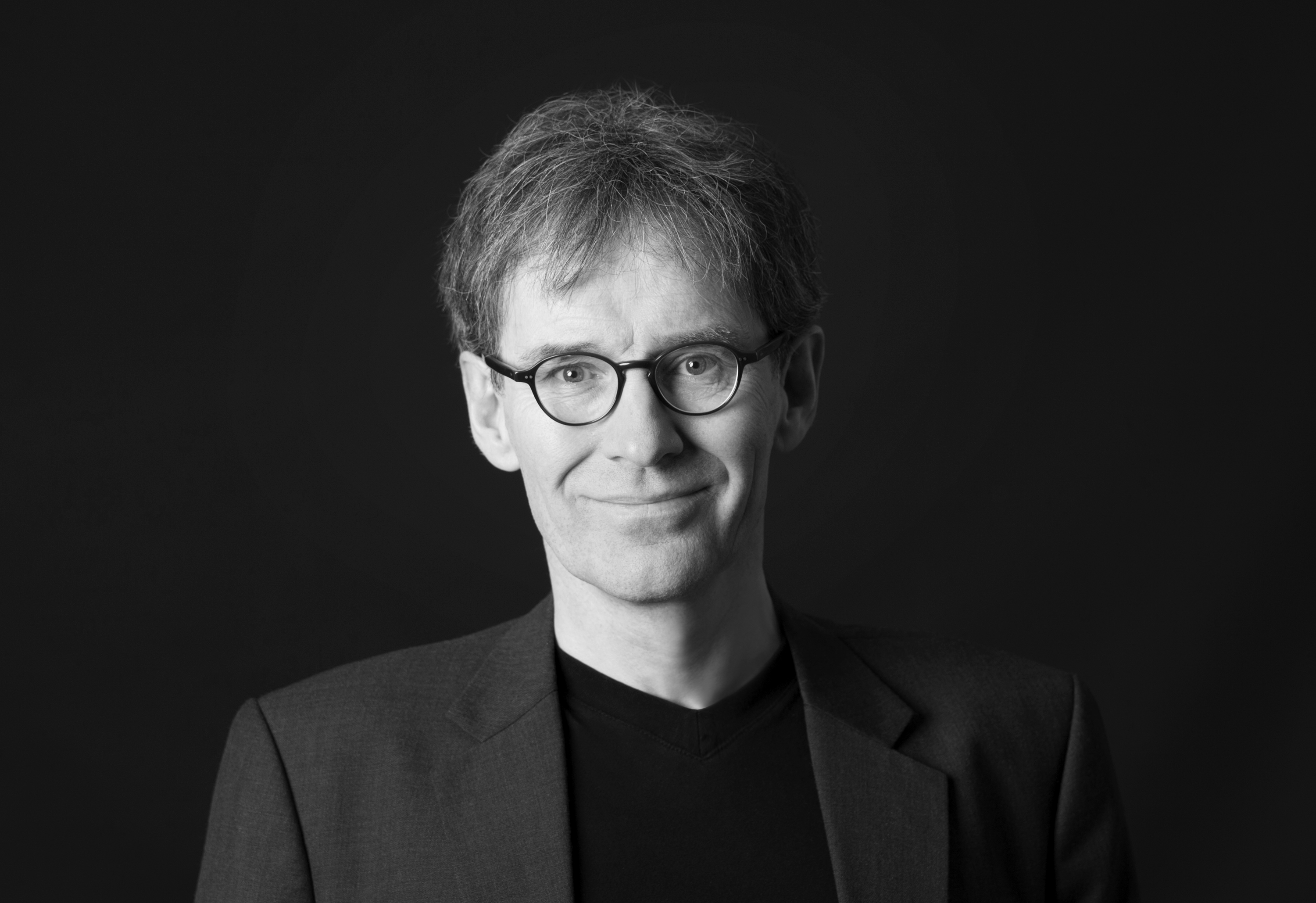 Portrait of the German Medical Ethicist and Philosopher Urban Wiesing